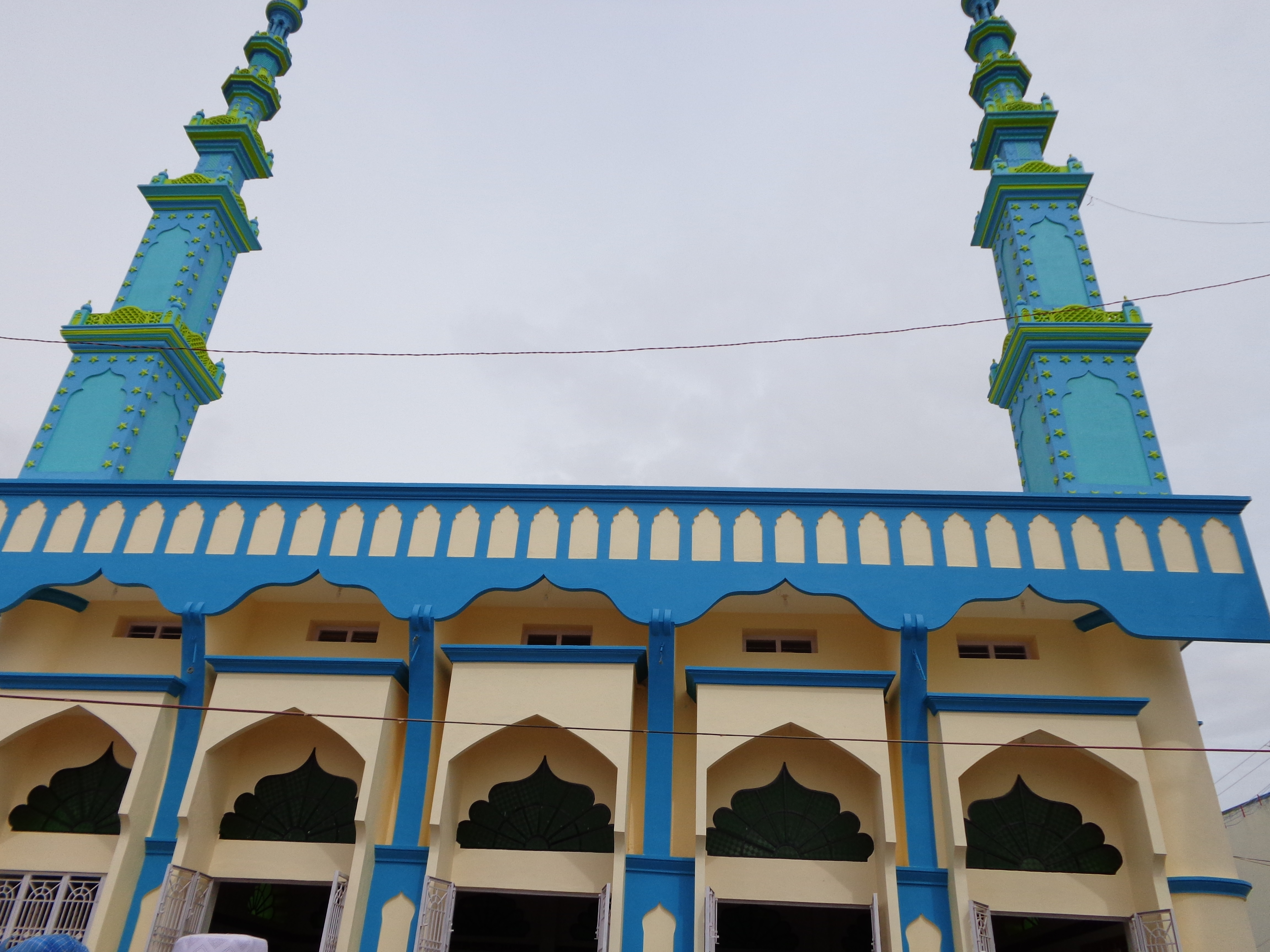 Aravakurichi - Jumma Masjid (Big Mosque)